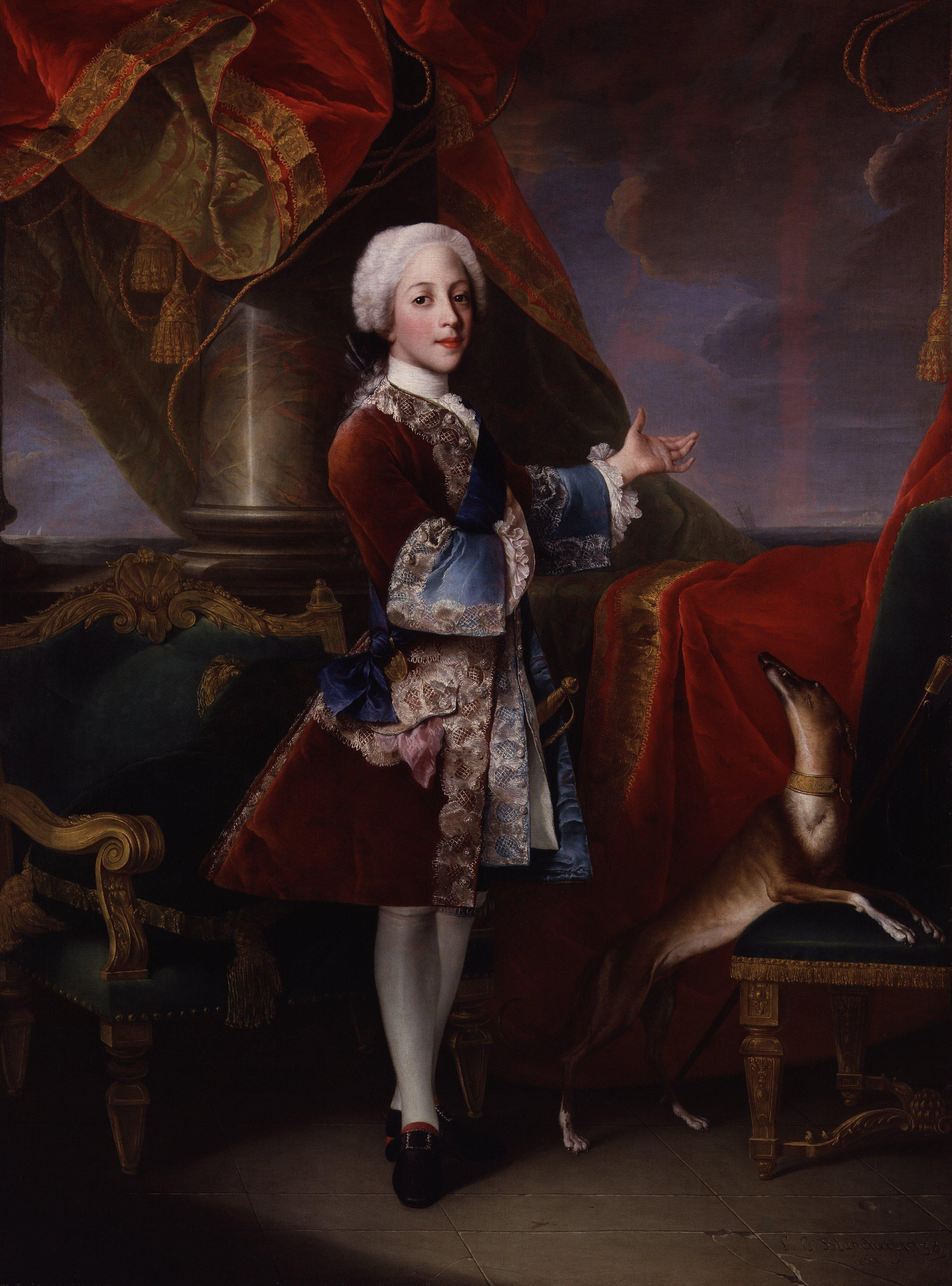 Portrait of Henry Benedict Maria Clement Stuart, Cardinal York (1725-1807)